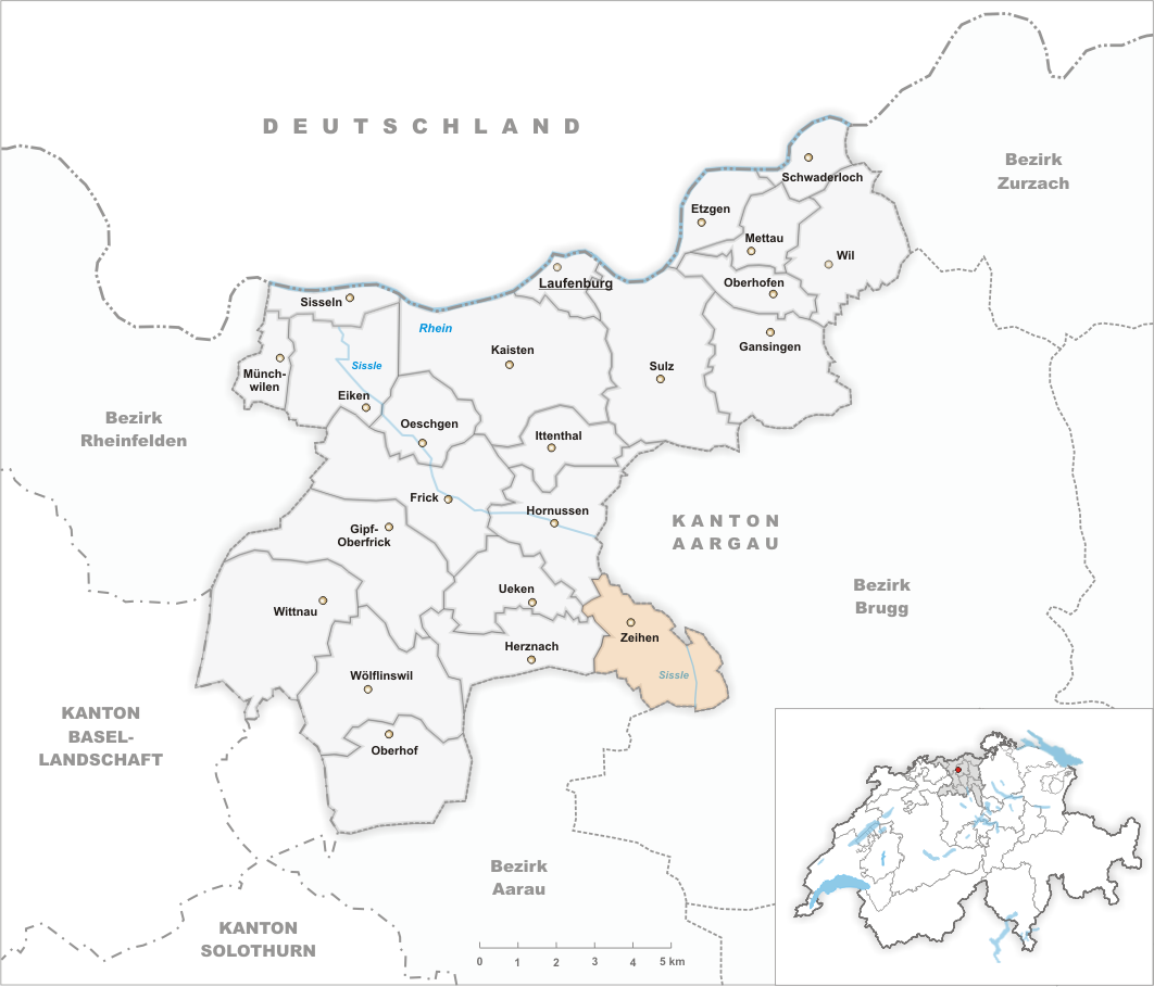 Municipality Zeihen